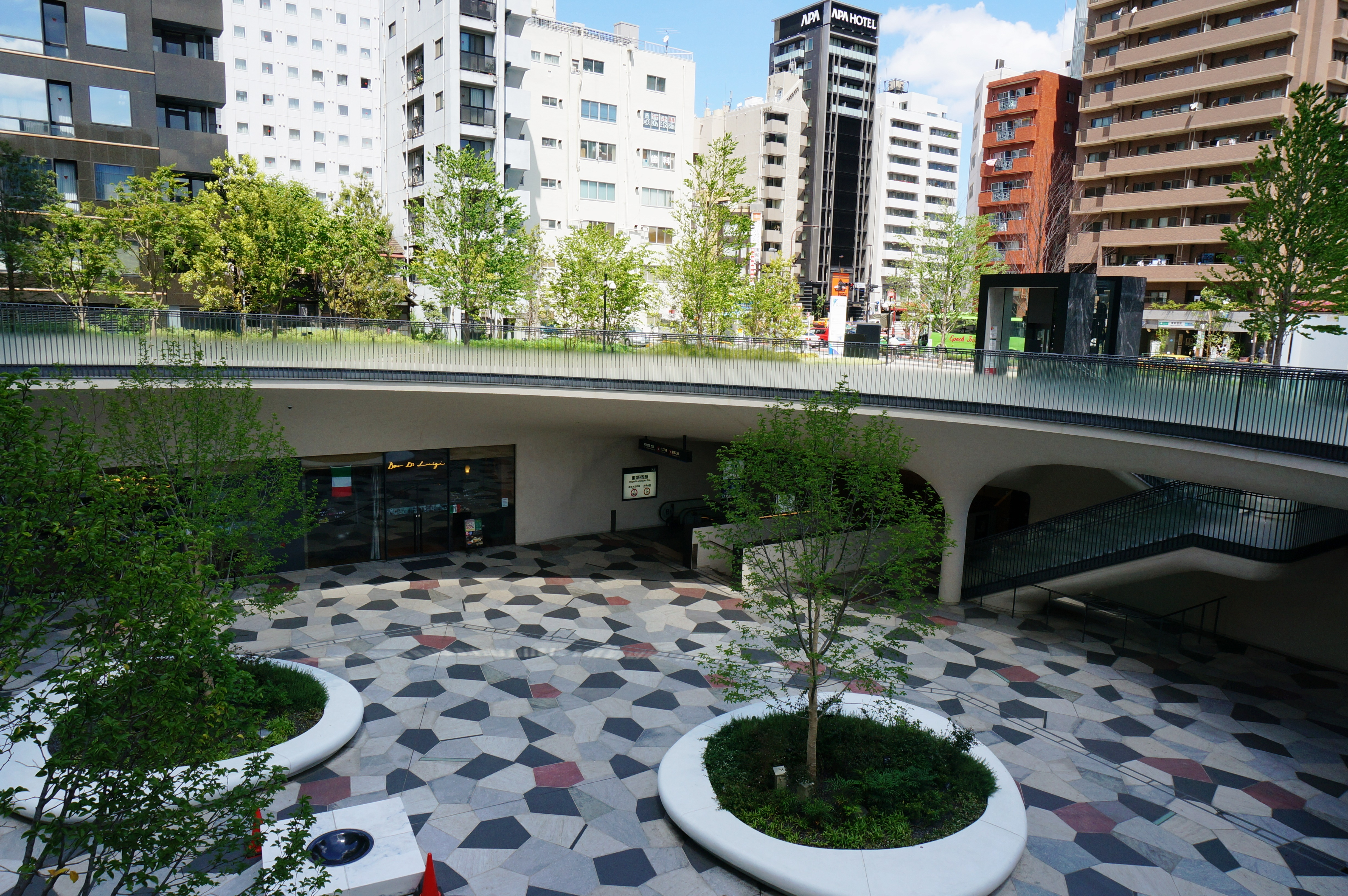 A3 Exit of Higashi Shinjyuku Station